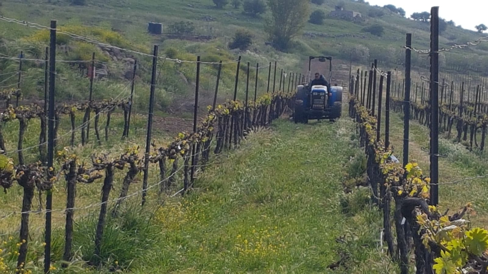 כרם בראון